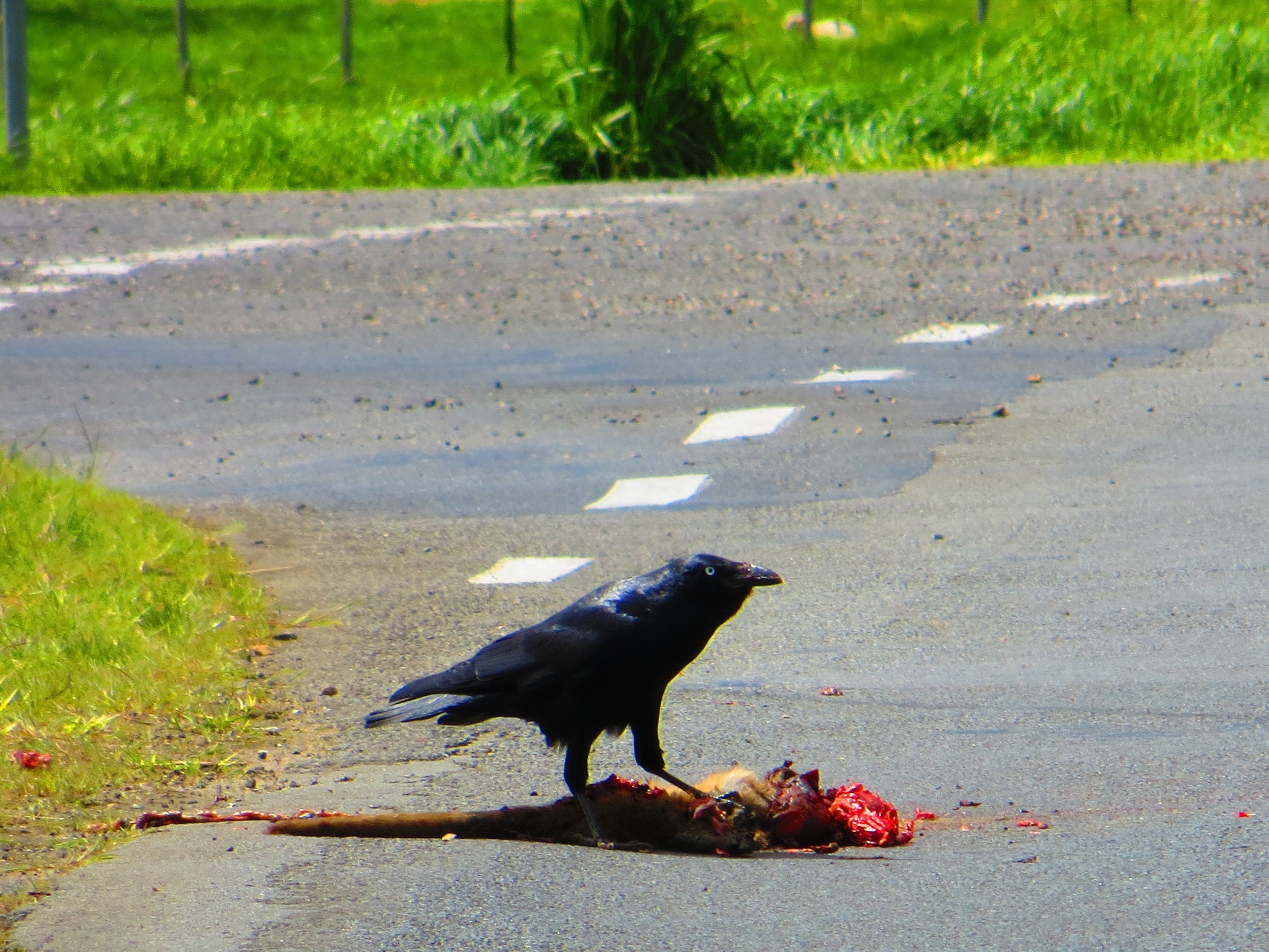 Forest raven (Corvus tasmanicus), Mole Creek, Tasmania, Australia